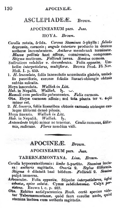 First description of Hoya linearis and Hoya lanceolata: page 130 from Prodromus florae Nepalensis :sive Enumeratio vegetabilium quae in itinere per Nepaliam proprie dictam et regiones conterminas, ann. 1802—1803. Detexit atque legit d. d. Franciscus Hamilton, (olim Buchanan) Accedunt plantae a. d. Wallich nuperius missae /Secundem methodi naturalis normam disposuit atque descripsit David Don. Londini : J. Gale, 1825